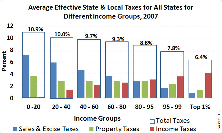 Average effective state and local taxes for all states, 2007. Includes income, property, and sales taxes with and overlaid total tax.